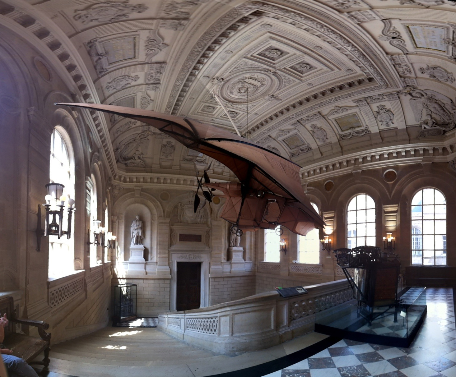 "Avion III" by Clement Ader at the Museum of Arts et Métiers, Paris. Completed in 1897.